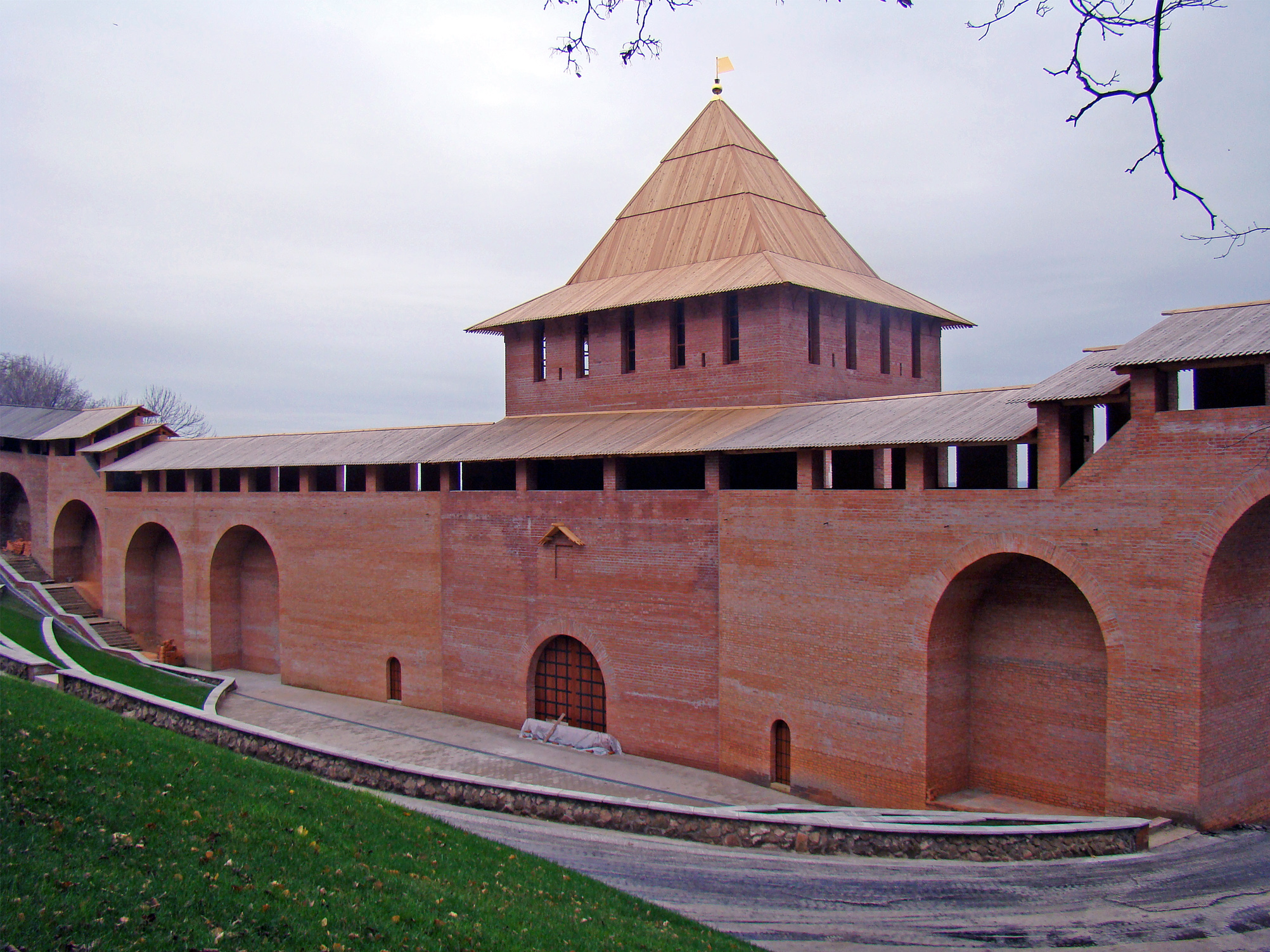 The rebuilt Zachatskaya Tower of Nizhny Novgorod Kremlin